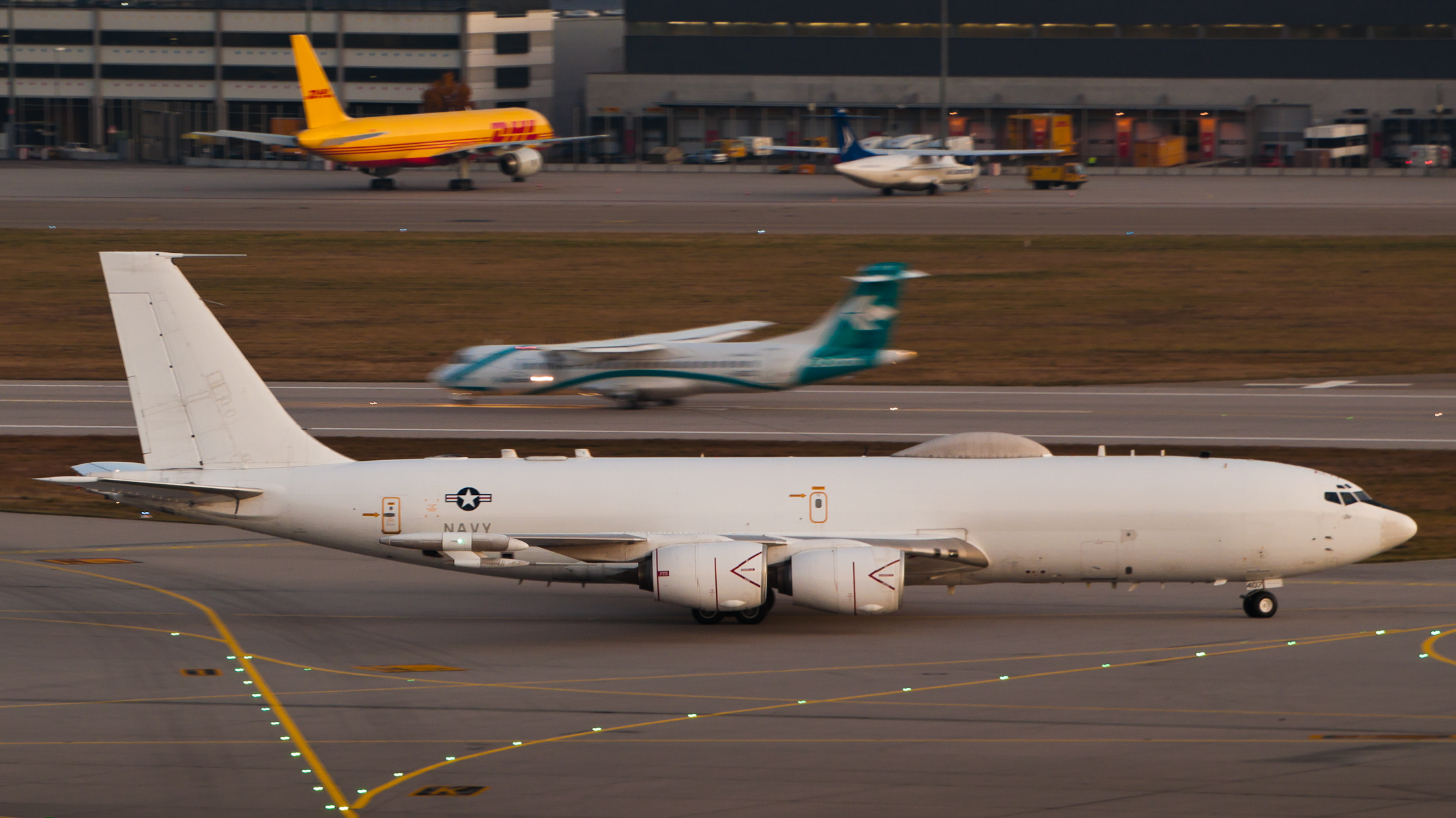 USA - Navy Boeing E-6B Mercury, Registration: 164407 - Stuttgart Airport (EDDS/STR)